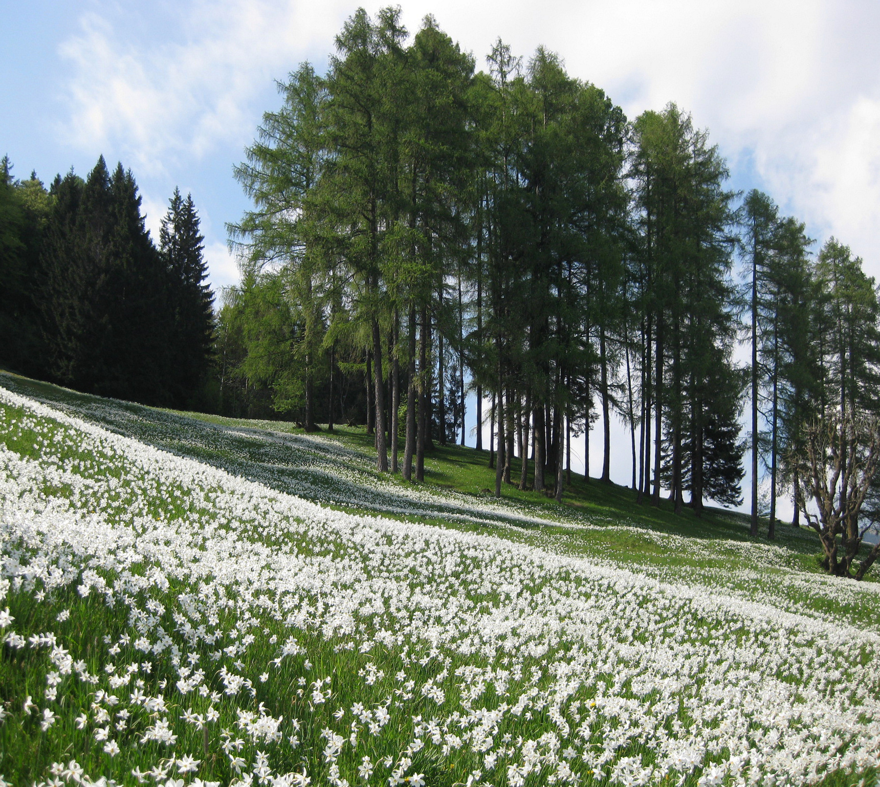 Daffodils (Narcissus poeticus) at Golica near Jesenice, Slovenia